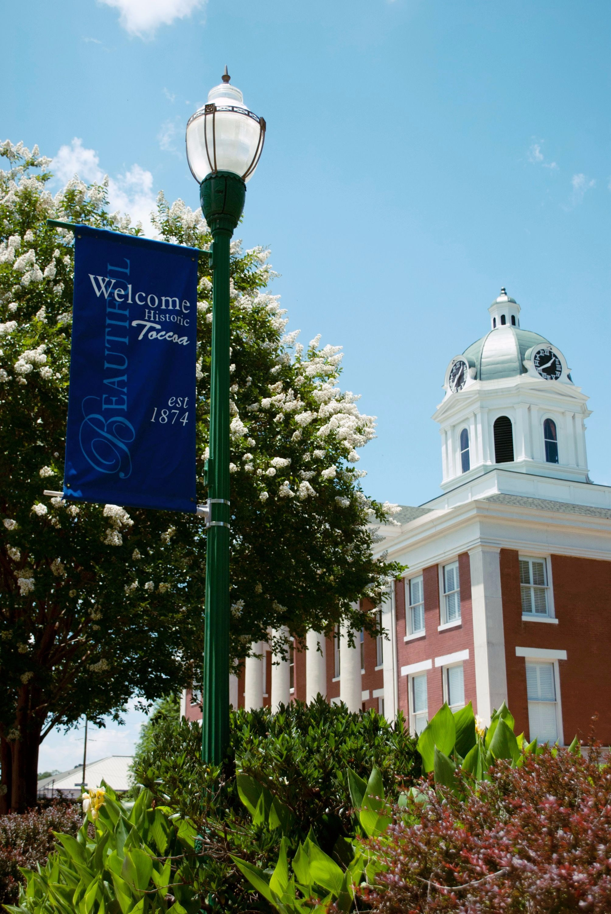 Street Sign